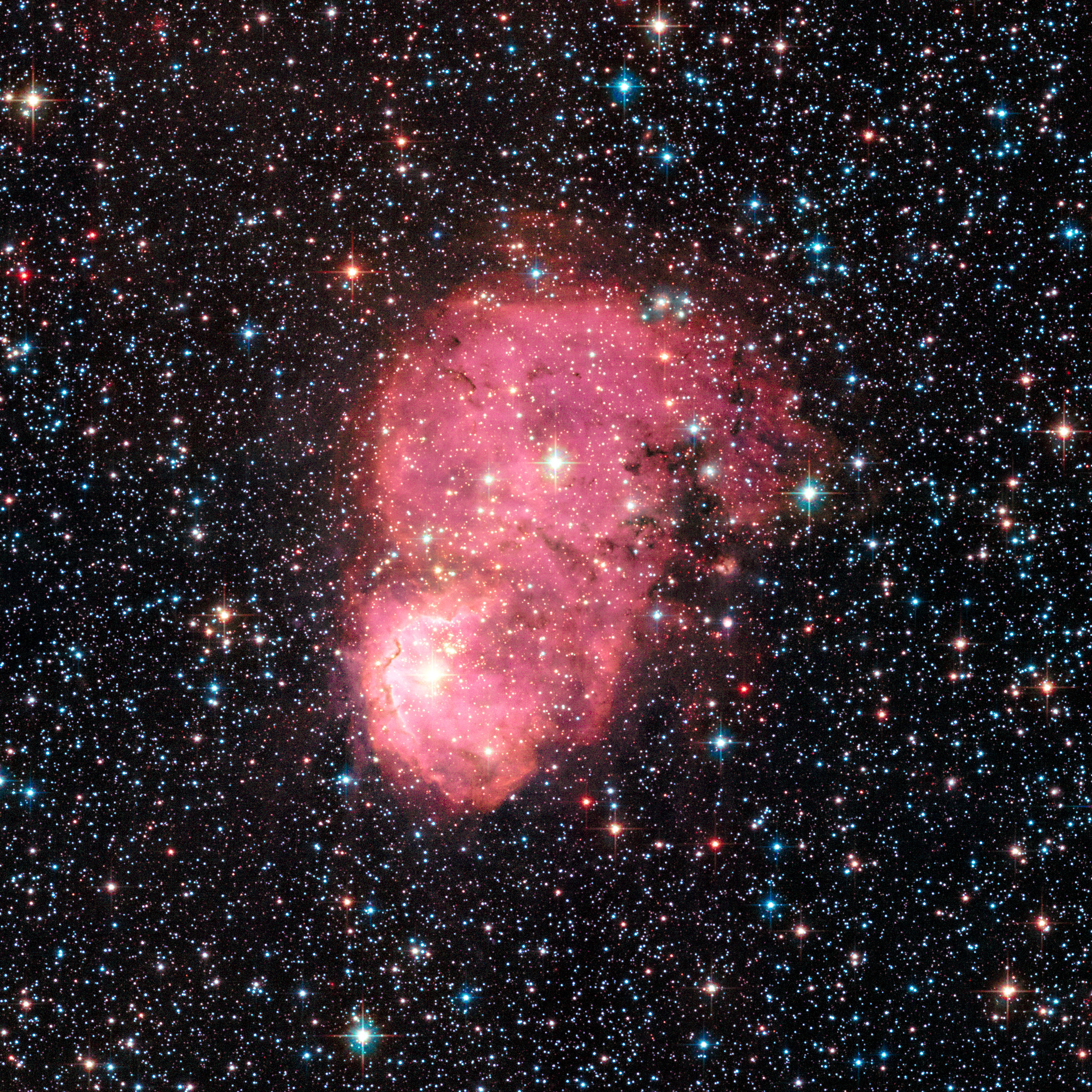 This glowing nebula, named NGC 248, is located within the Small Magellanic Cloud, a satellite galaxy of the Milky Way and about 200 000 light-years from Earth. The nebula was observed with Hubble’s Advanced Camera for Surveys in September 2015, as part of a survey called the Small Magellanic cloud Investigation of Dust and Gas Evolution (SMIDGE).